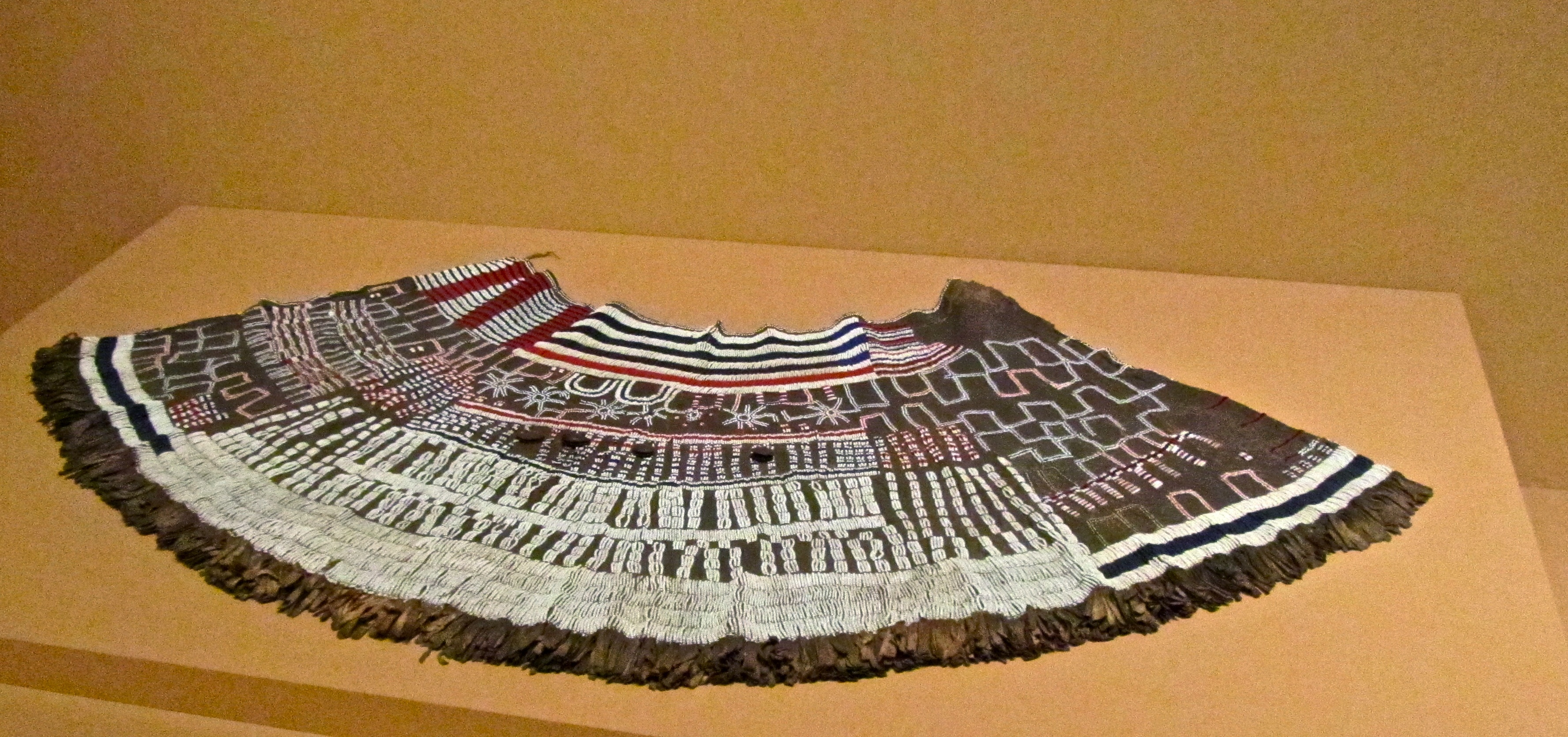 Iraqw people Tanzania leather, glass and metal beads, metal bells 1940-1970 This skirt is worn at the close of female initiation ceremonies. The overall design is characteristic of Southern Africa.